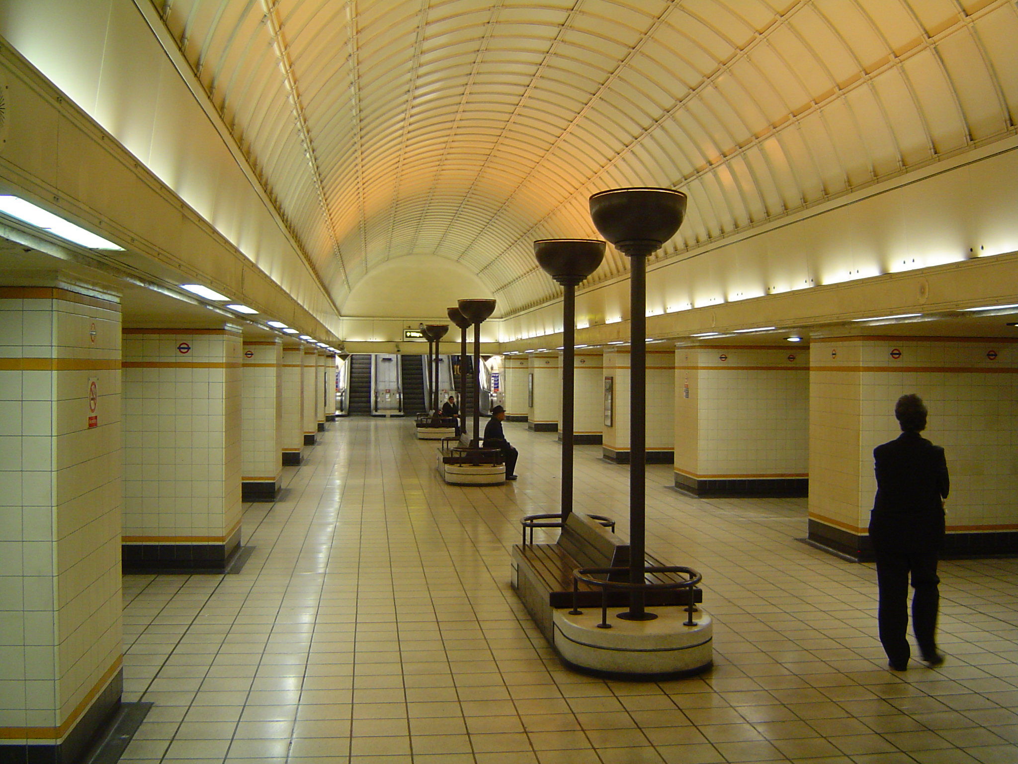 Gants Hill Underground, modelled on the Moscow subway system stations.